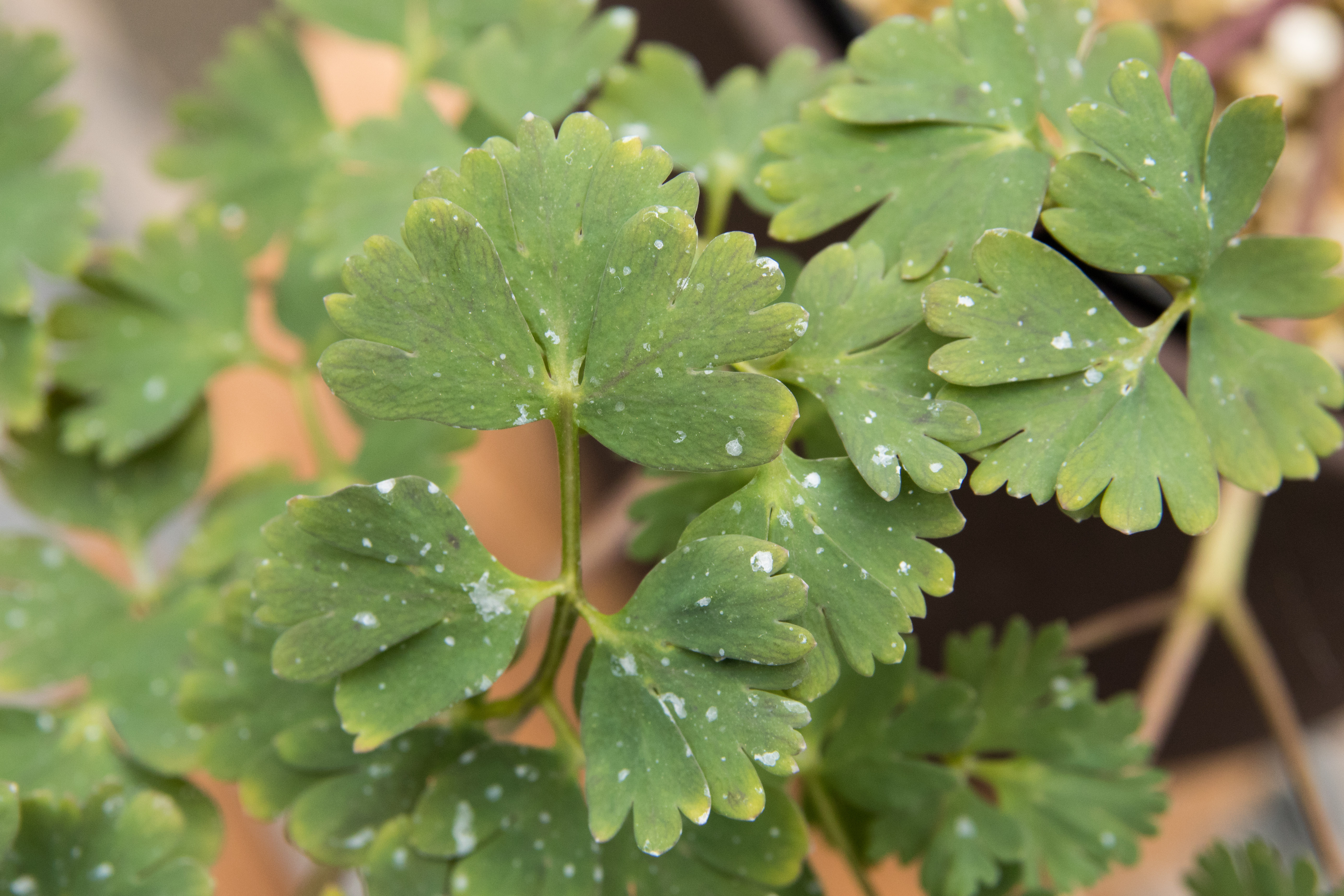 Callianthemum kirigishiense